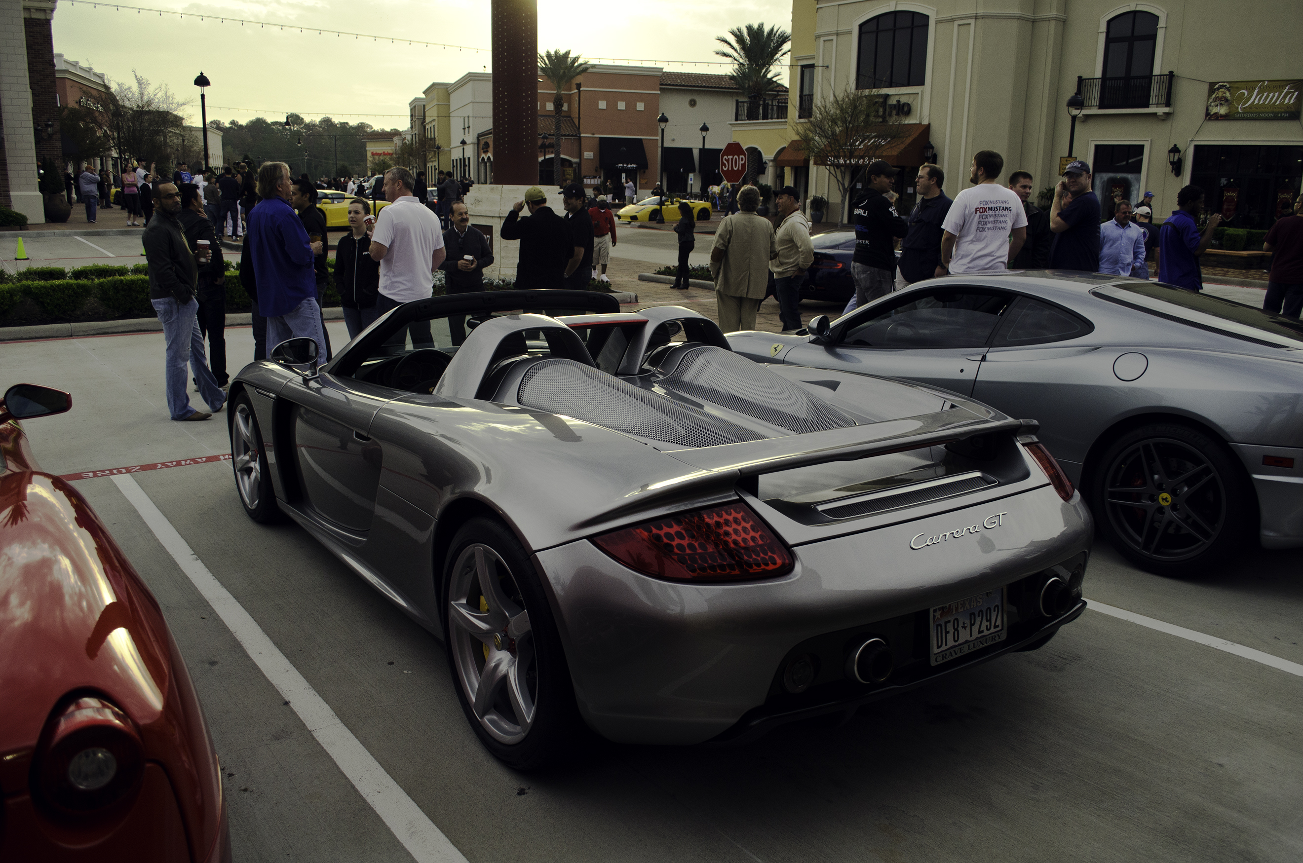 Houston Coffee and Cars December 2011